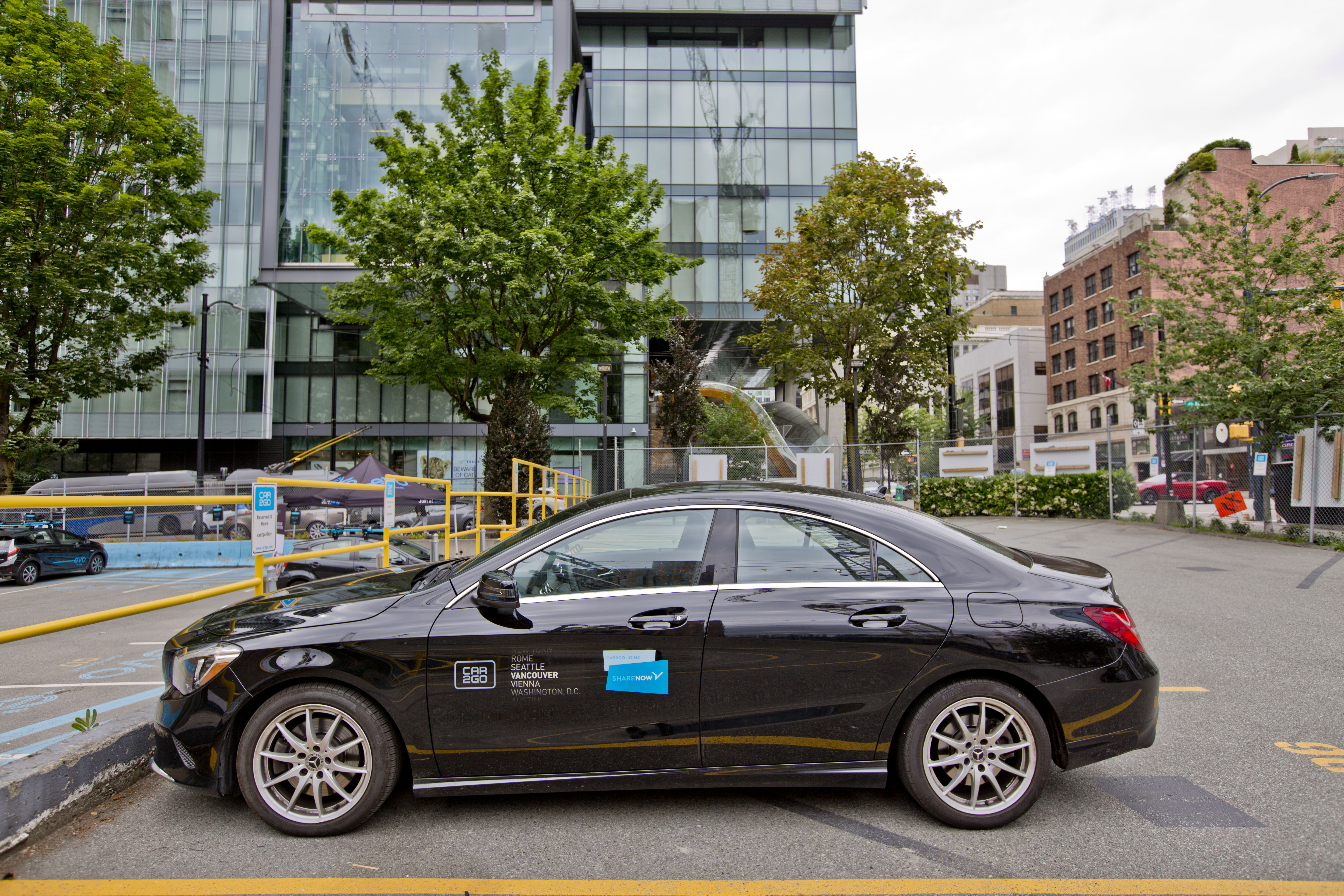 Car2Go Car Sharing